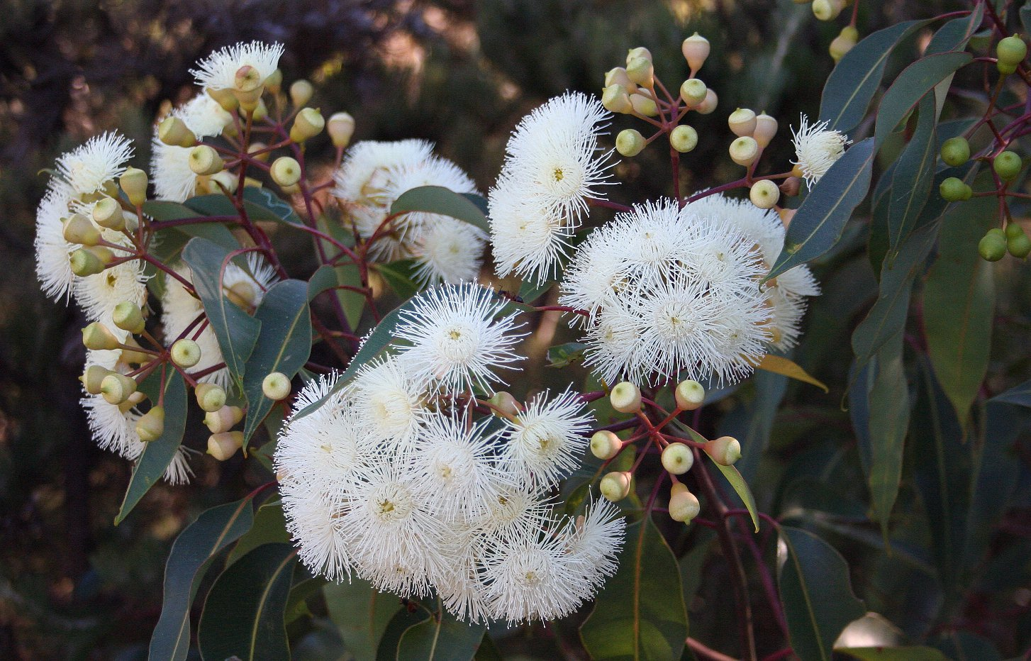 Eucalyptus (Corymbia) calophylla in flower, near Cataby